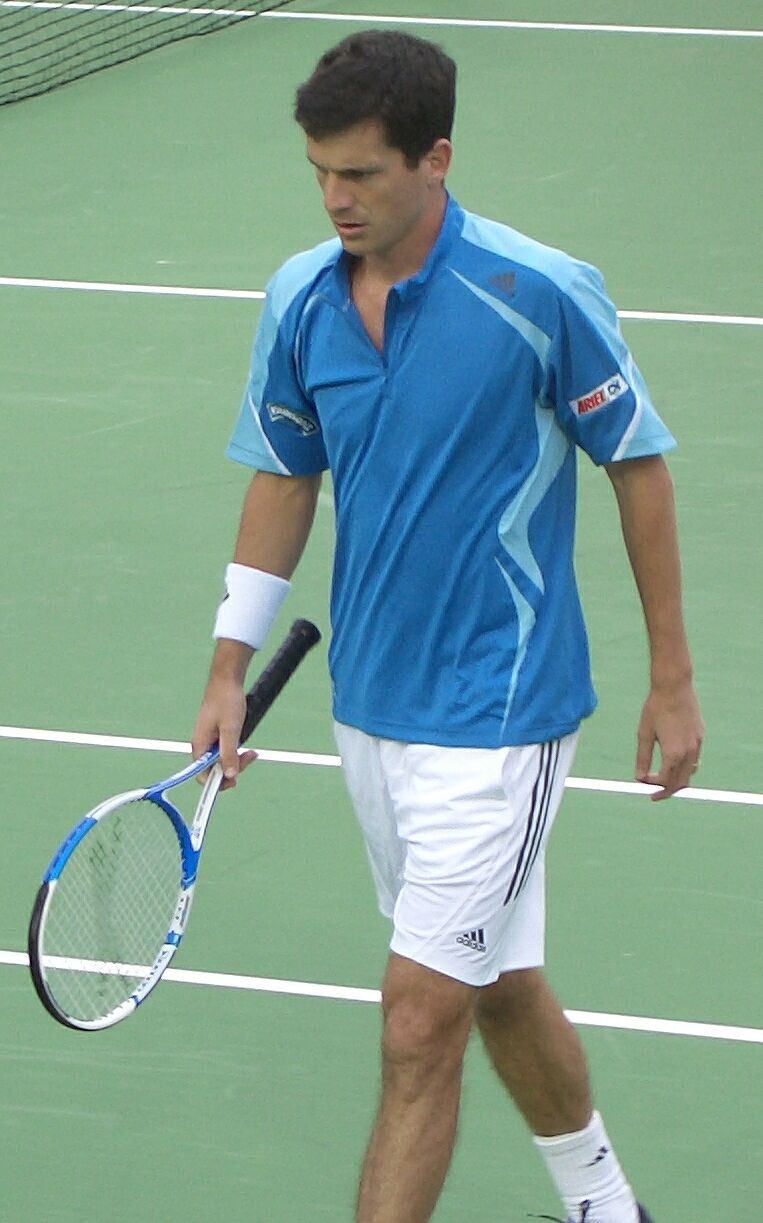 Tim Henman during the first round of the 2006 Australian Open, playing Dmitry Tursunov. Henman lost.